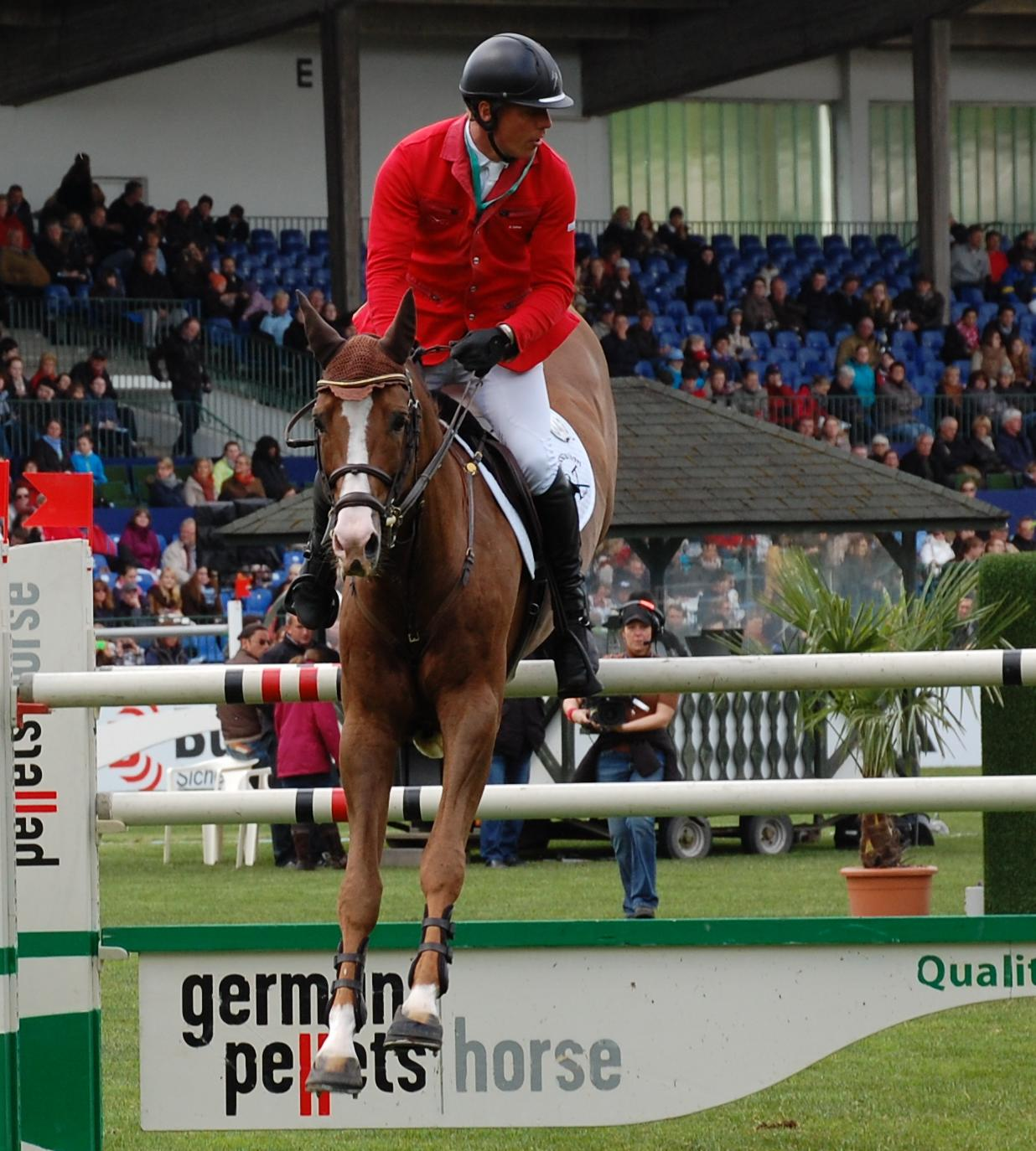 German rider Rene Tebbel with Light On, "Championat von Hamburg", CSI 5* Hamburg 2012